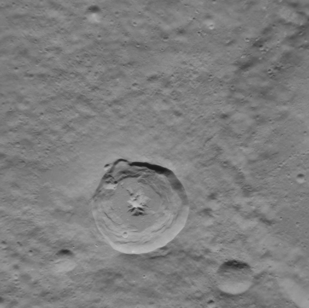 Kuniyoshi crater on Mercury. MESSENGER Narrow Angle Camera image. Approximate north is up. Emission Angle: 12.7 Incidence Angle: 60.6 Latitude: -57.6 Longitude: 323.1 Phase Angle: 47.9